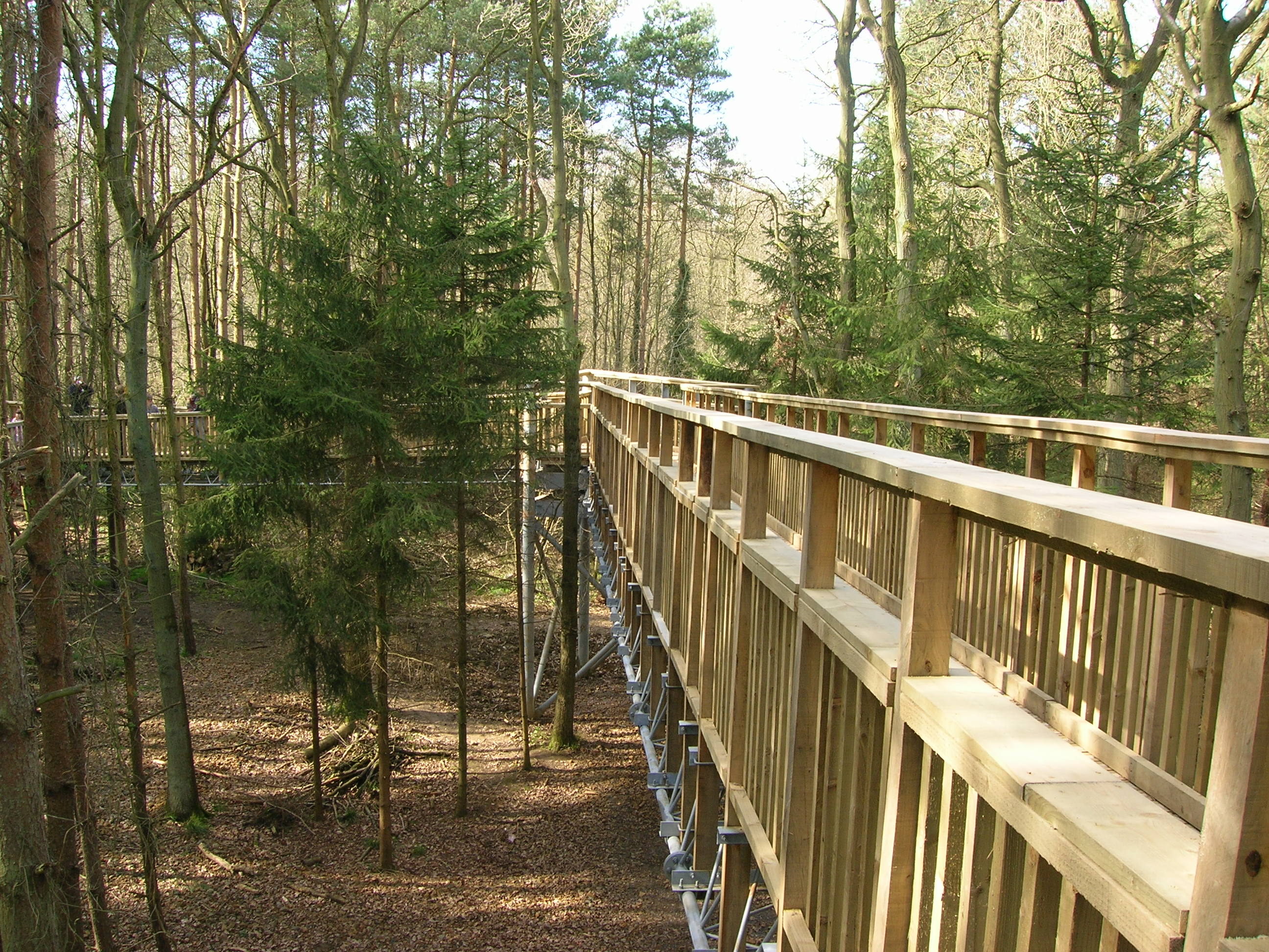 Royal forest of Salcey, former medieval hunting forest in the south of the county of Northamptonshire in England., Sites of Special Scientific Interest